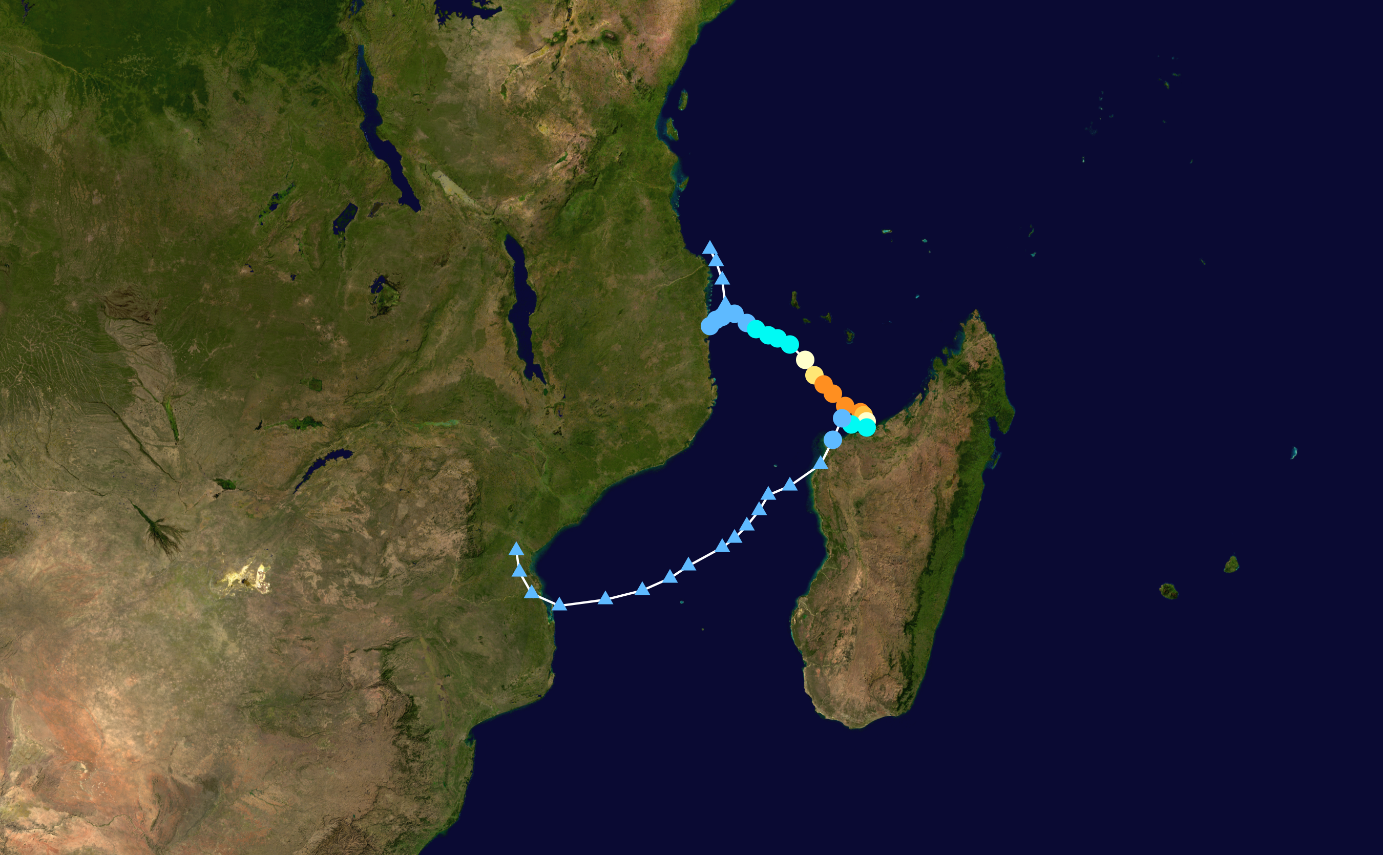 Track map of Very Intense Tropical Cyclone Hellen of the 2013–14 South-West Indian Ocean cyclone season. The points show the location of the storm at 6-hour intervals. The colour represents the storm's maximum sustained wind speeds as classified in the Saffir–Simpson scale (see below), and the shape of the data points represent the nature of the storm, according to the legend below. Saffir–Simpson scale Tropical depression≤38 mph≤62 km/h Category 3111–129 mph178–208 km/h Tropical storm39–73 mph63–118 km/h Category 4130–156 mph209–251 km/h Category 174–95 mph119–153 km/h Category 5≥157 mph≥252 km/h Category 296–110 mph154–177 km/h Unknown Storm type Tropical cyclone Subtropical cyclone Extratropical cyclone / Remnant low / Tropical disturbance / Monsoon depression